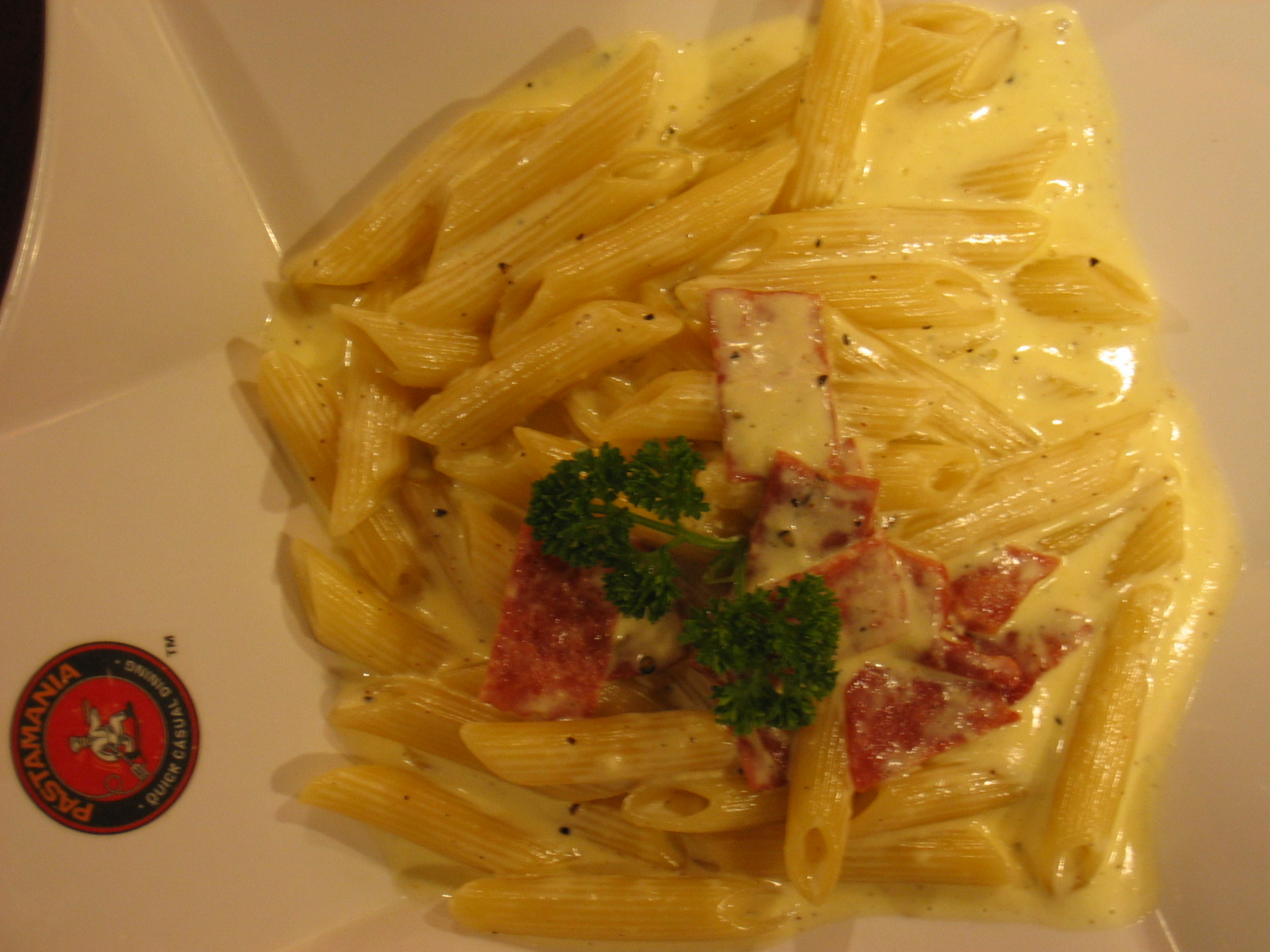 taken on 020213